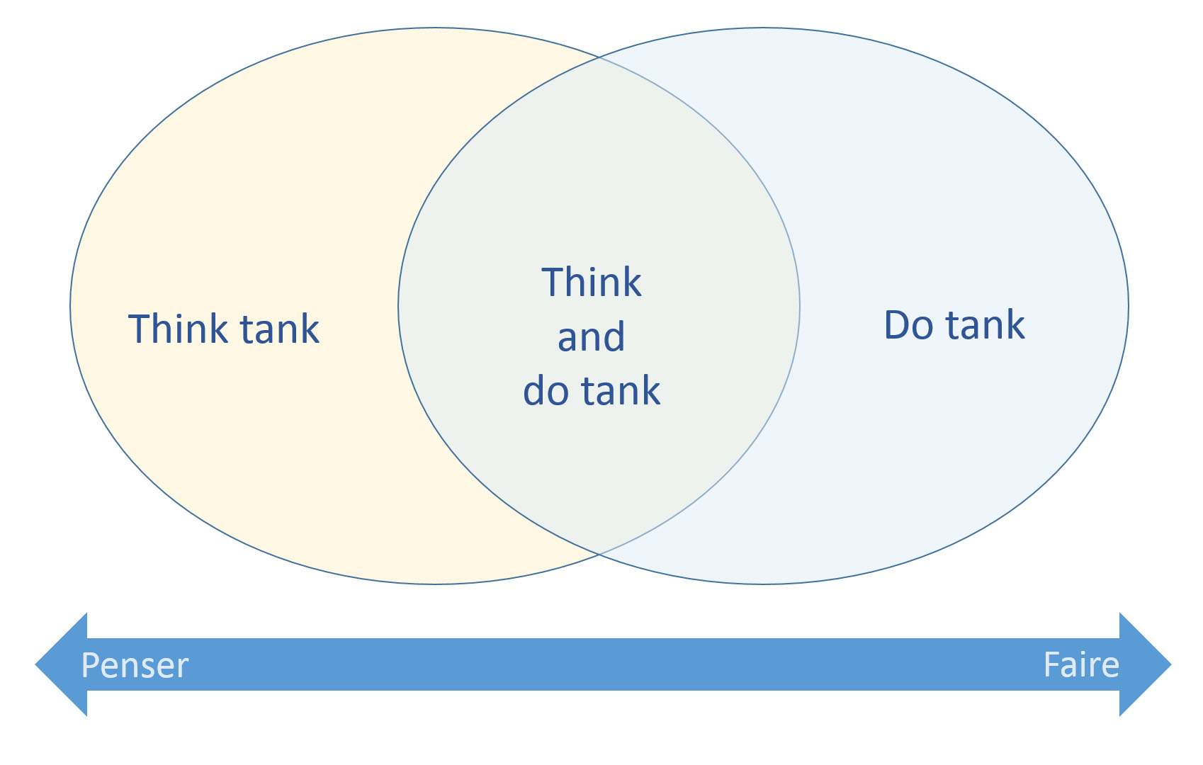 Diagram illustrating that there is no clear limit between the think tank and the "Do tank", but that we can classify them into three main types of "tanks". The Do tank (type of structure associative and collaborative that emerges in the years 2010) is expressly more oriented to the "doing" than thinking, to the production of actions or objects, not just ideas (usually with a goal of solidarity and sustainability). Many think tanks (on the left of the graph) have been created in the service of political groups and / or industrial lobbies. Their products are "written" messages and content and audio / video prafois ... while the do tanks (phenomenon still emerging) want to be more operational (while also being able to avail themselves of political ideas), possibly in the movement of the DOI (do it yourself). In companies and administrations, we speak more often of "task force" or "project team".